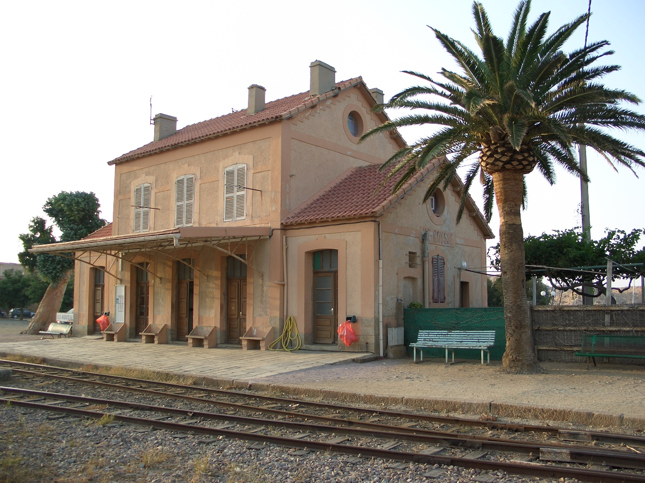 L'Île-Rousse train station, Corse, France.